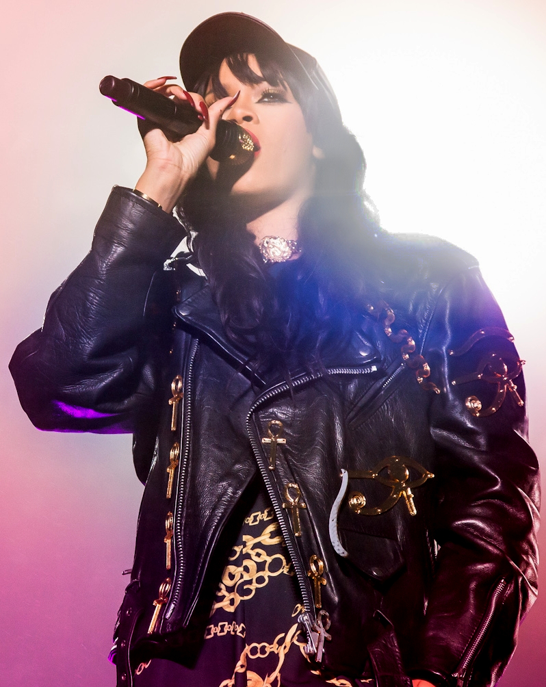 Rihanna live at Kollen Music Festival 2012